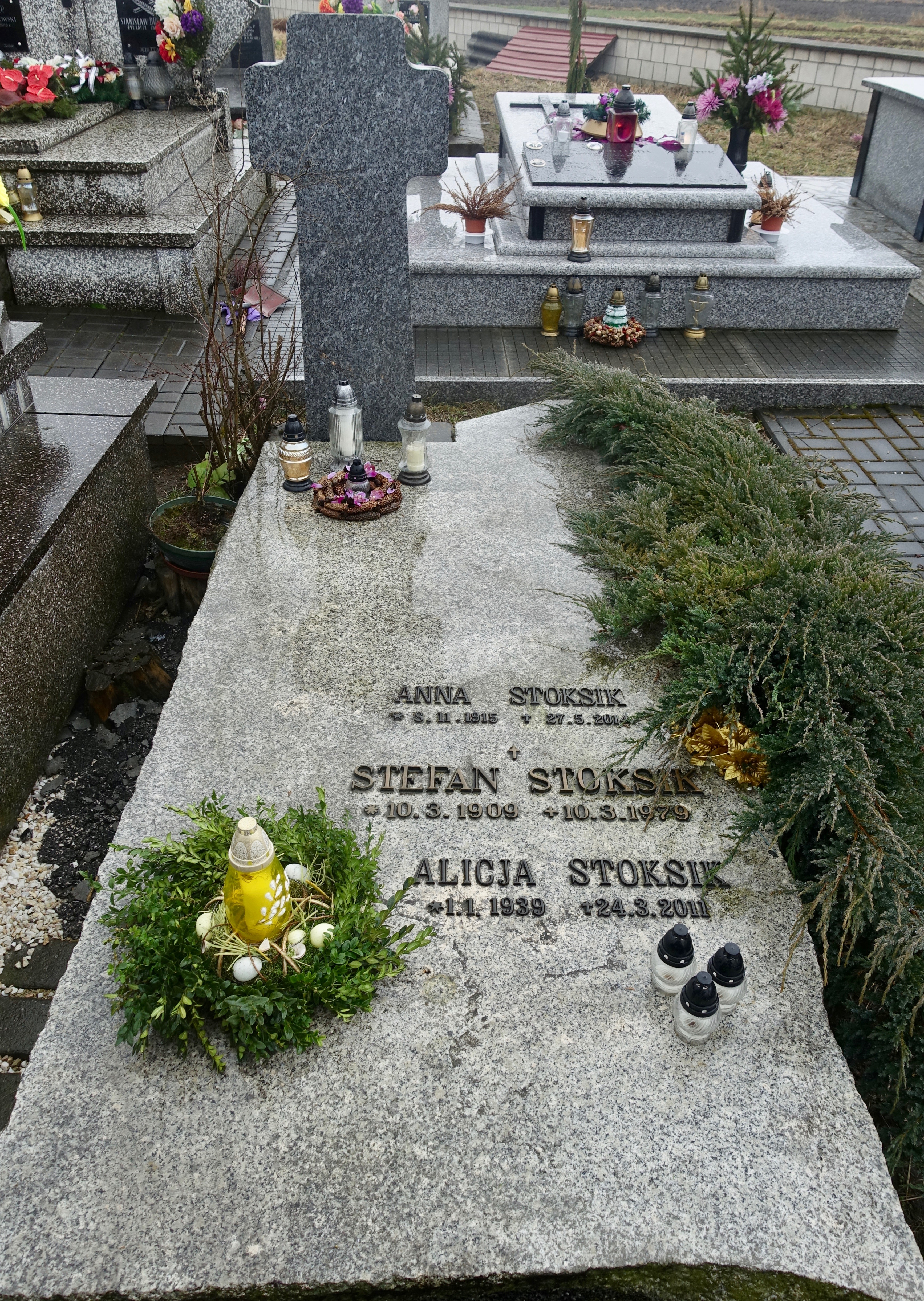 Alicja Stoksik's grave, Opatowiec cemetary, Poland, 29 March 2018